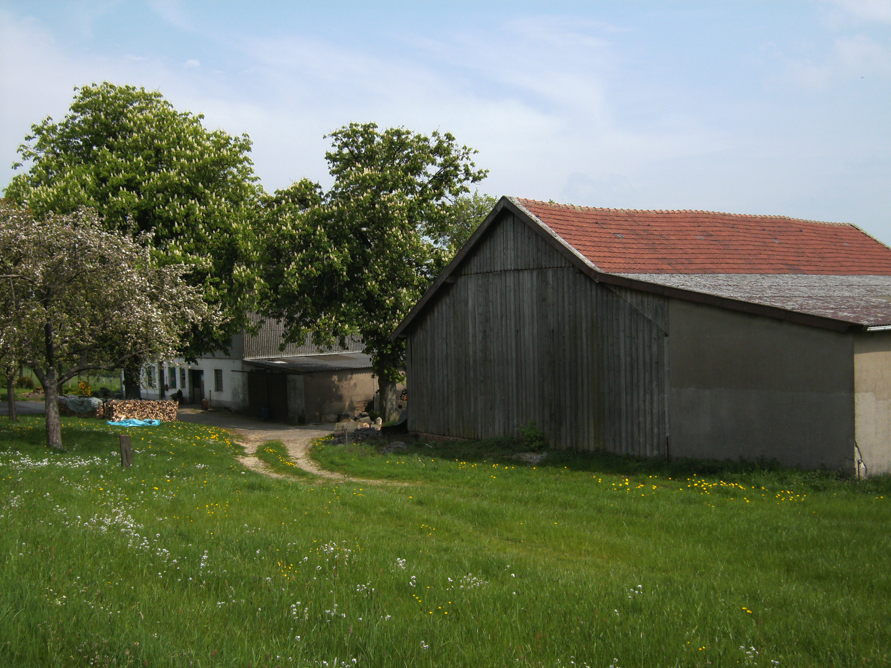 Wuppertal-Dönberg: Stürmann